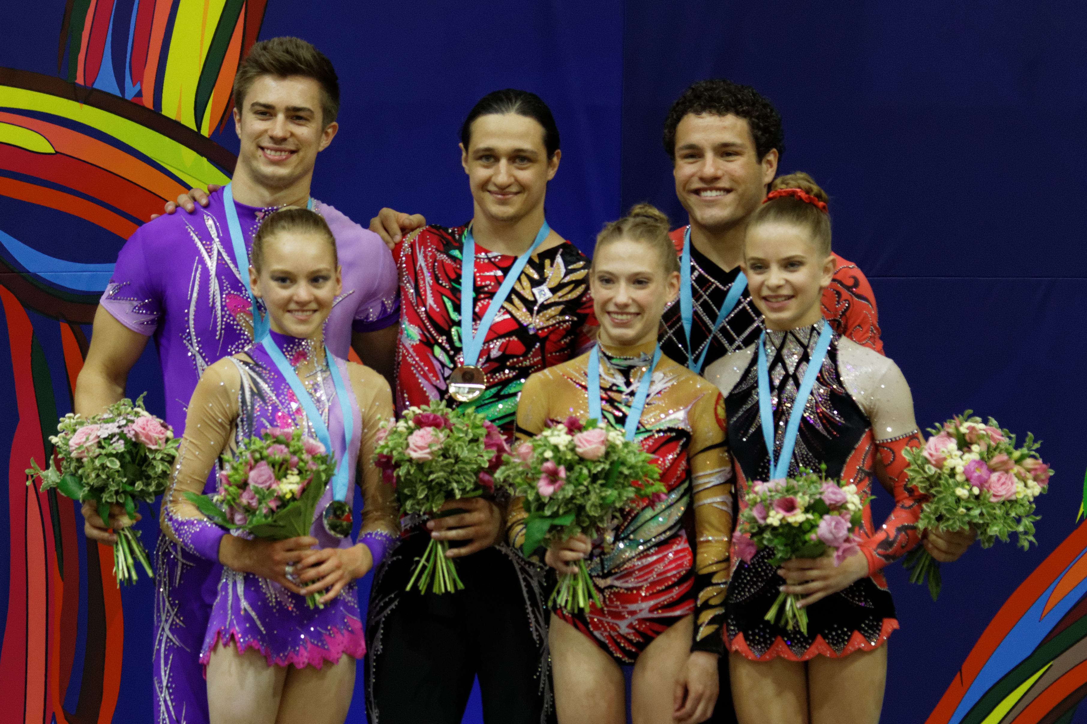 2014 Acrobatic Gymnastics World Championships, 10th-12 July, Levallois-Perret, France. Awarding ceremony.